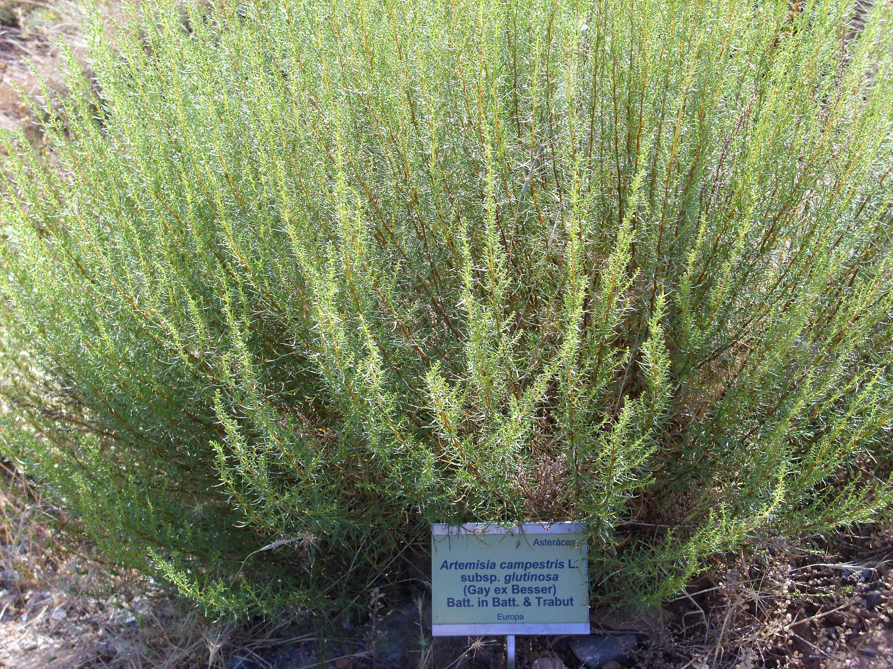 Artemisia campestris subsp. glutinosa habit, Sierra Nevada, Spain